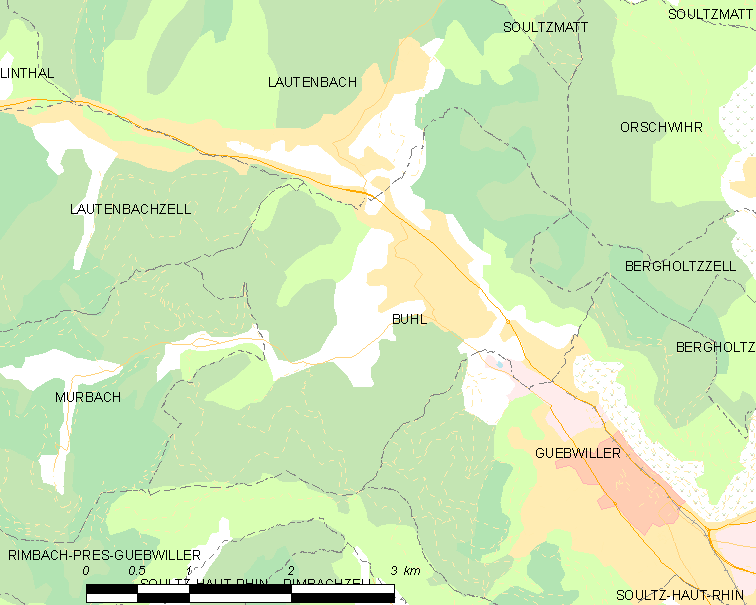 Map of French municipality